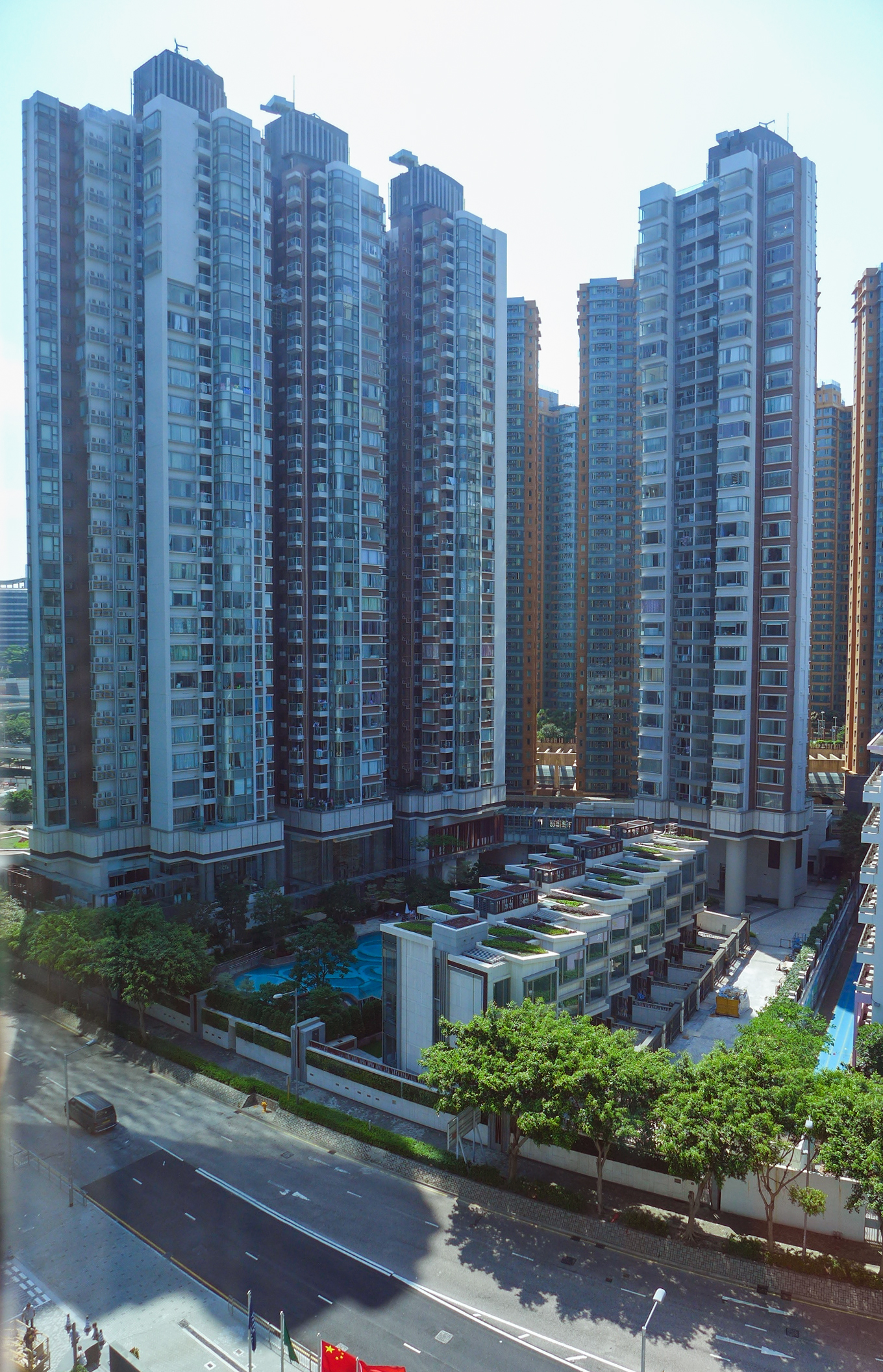 Stars by the Harbour